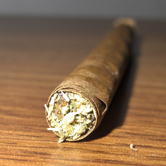 crack the bag and then you pour the whole bag in spread the ism around until the ism reach each end take your finger and your thumb from tip to tip roll it in a motion then the top piece you lick seal it dry it wit ya lighter if ya gotta the results.... hmmmmmmmm....proper! -- redman